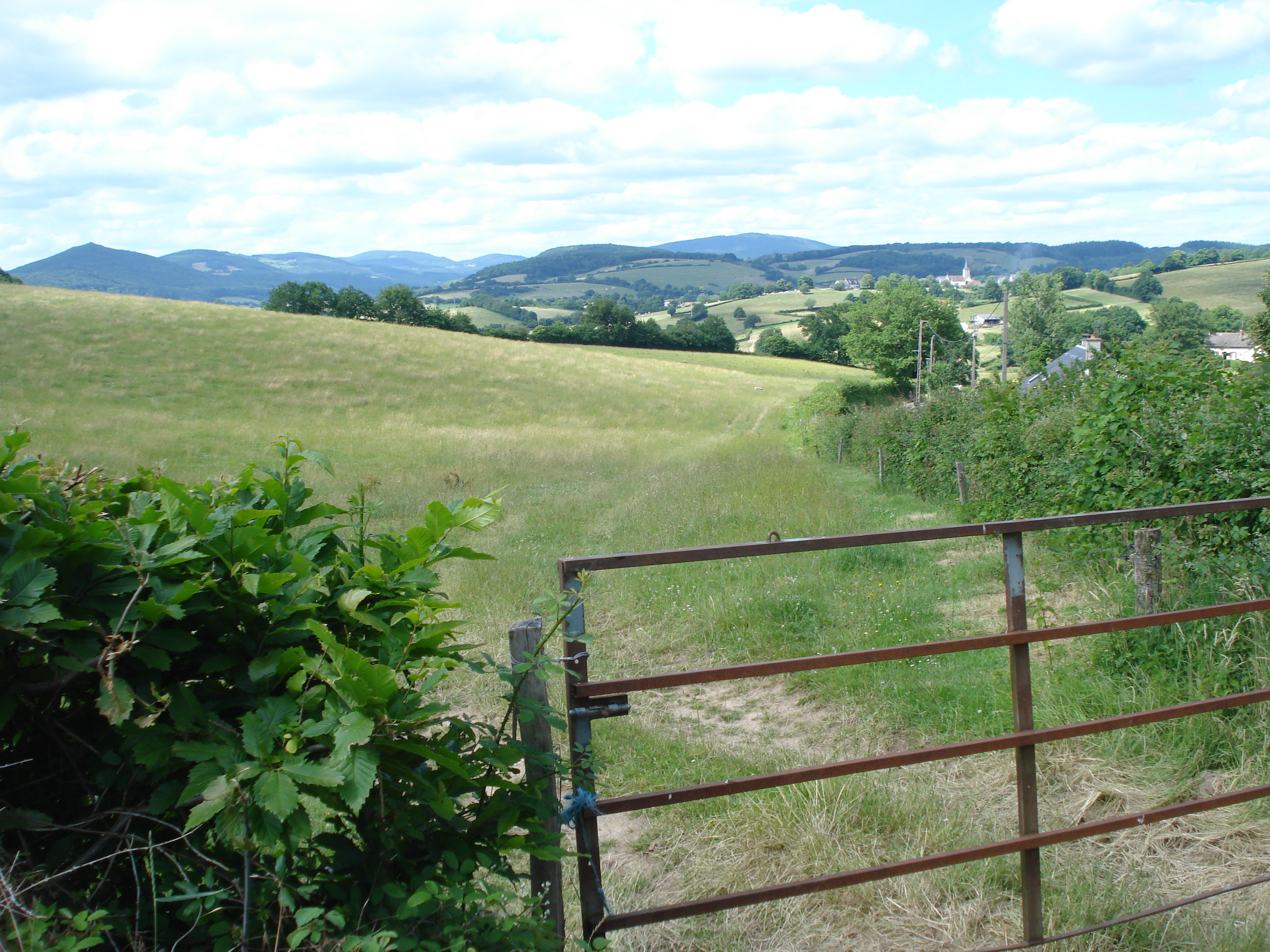 Le Haut Morvan et Millay, vue du sud.